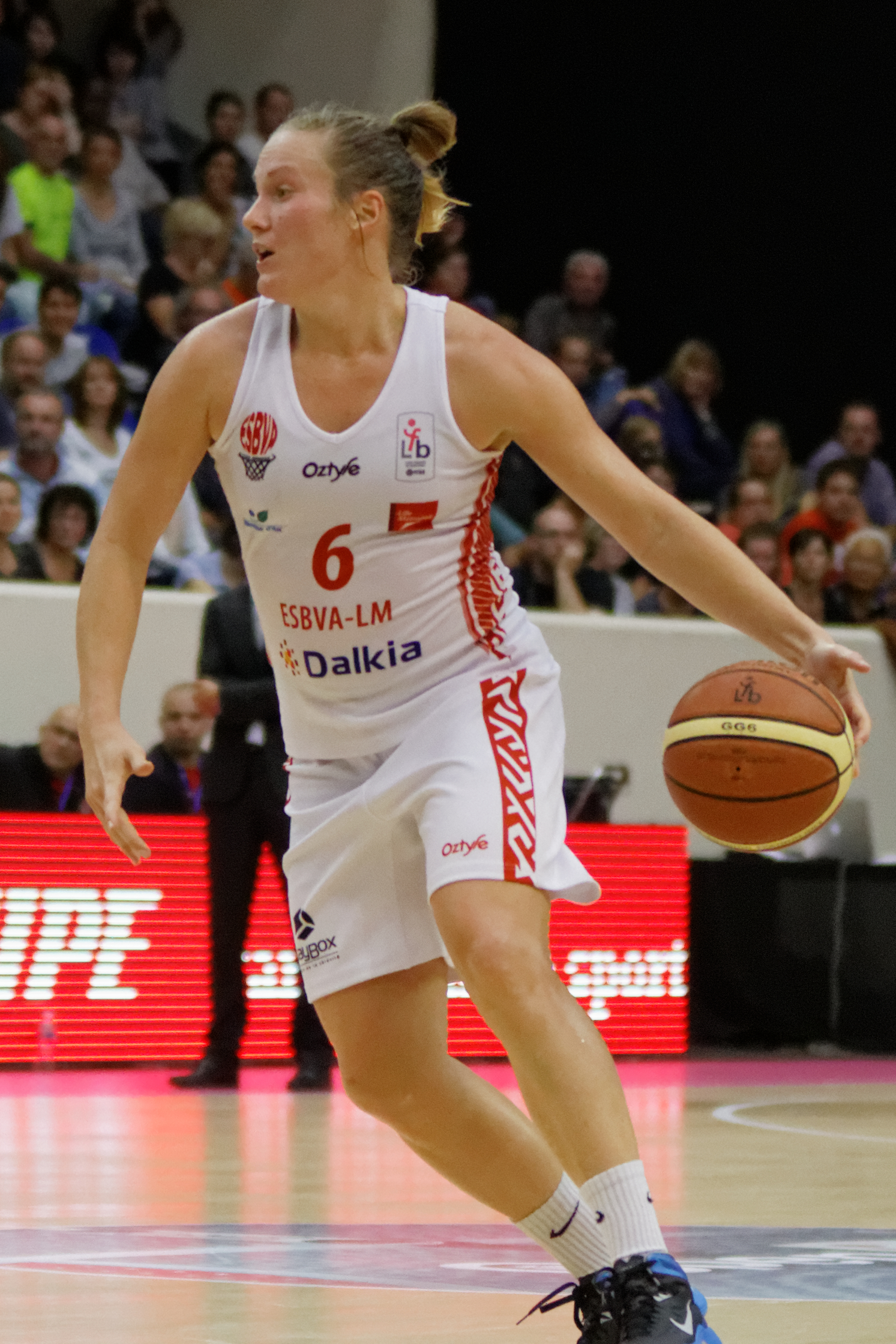 Open LFB, Villeneuve d'Ascq-Basket Landes, October 5th, 2013.